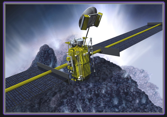 Champollion (Deep Space 4 / Space Technology 4) Comet lander Final concept